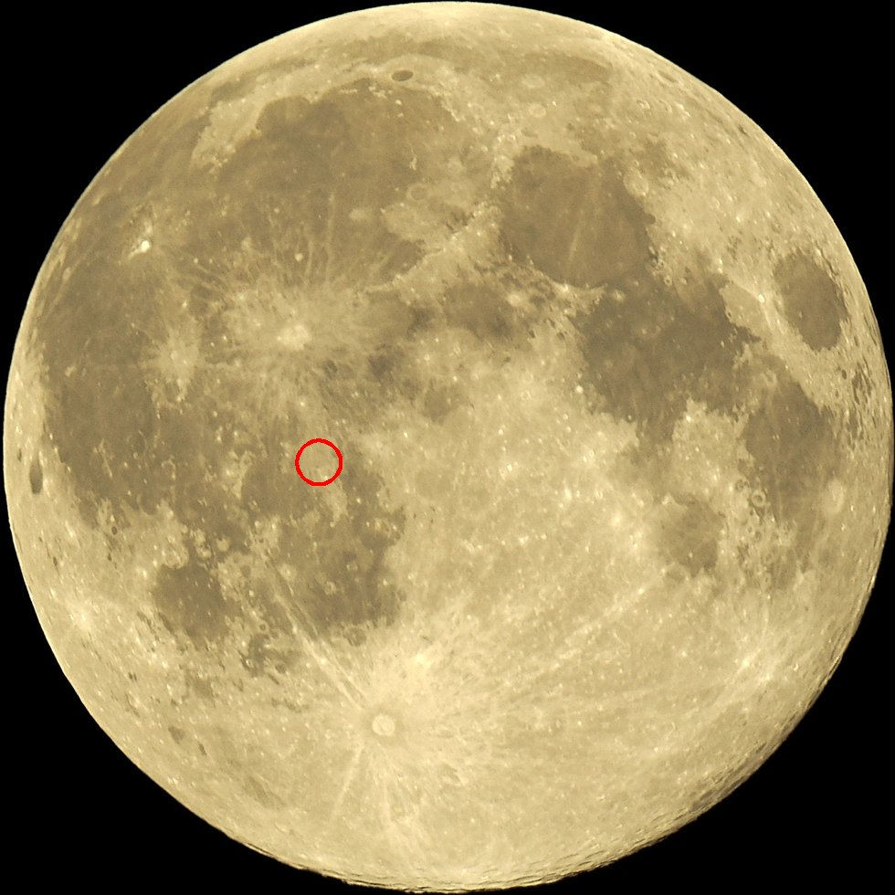 Location of crater Fra Mauro on the Moon